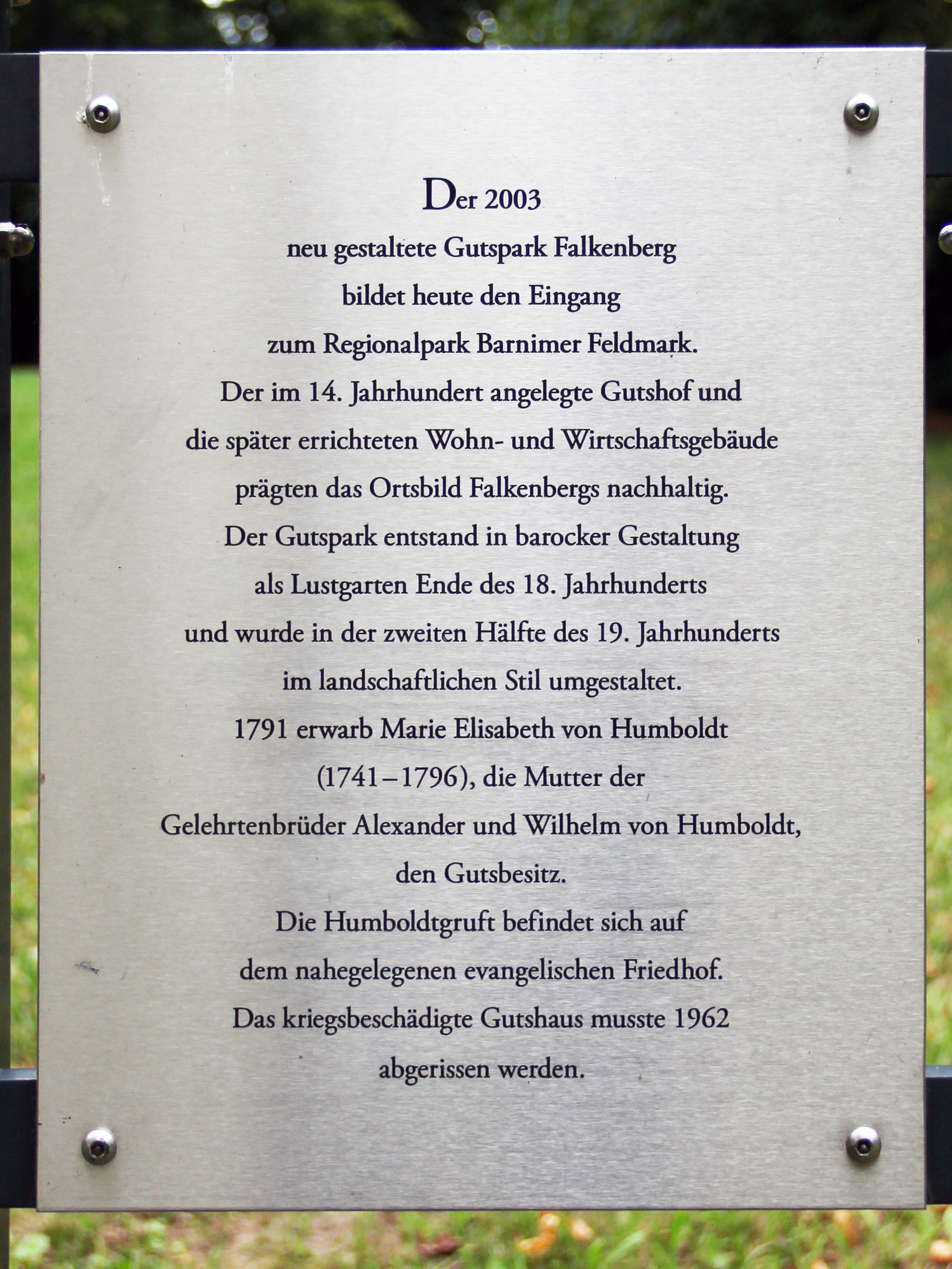 Memorial plaque, Gutspark Falkenberg, Dorfstraße 37, Berlin-Falkenberg, Deutschland